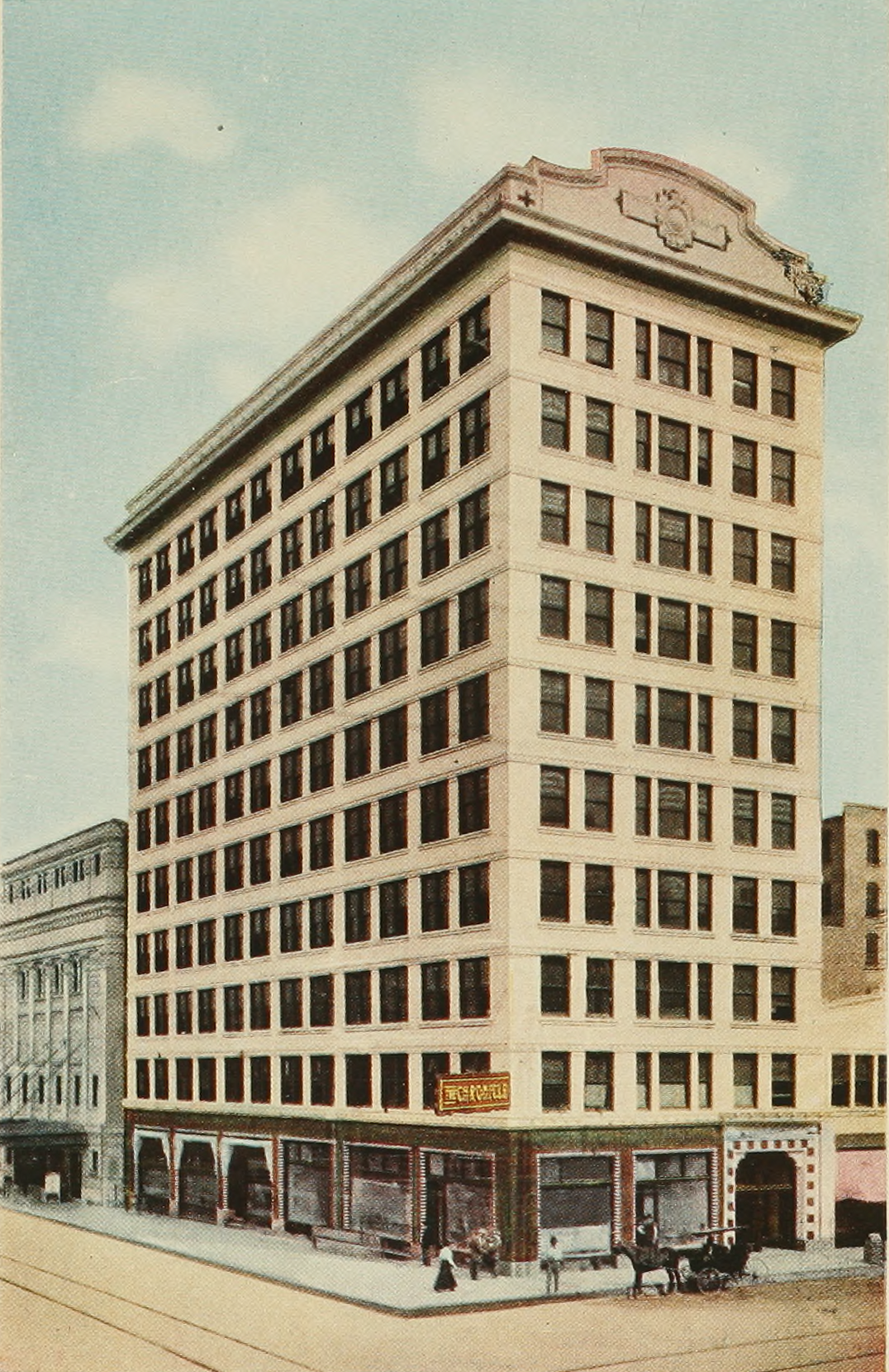 Houston Chronicle building, 1913 - From "Houston: Where Seventeen Railroads Meet the Sea" Page 19/40 "Chronicle Building Is One of the Forty Skyscrapers, All of Which Have Been Erected Within Five Years."